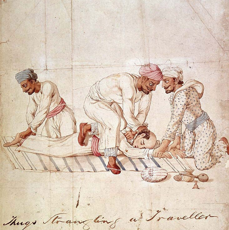 A groups of Thugs strangling a traveller on a highway in India in the early 19th century. One member of the group is gripping the traveller's feet, another his hands, while a third member is tightening the ligature around the traveller's neck.